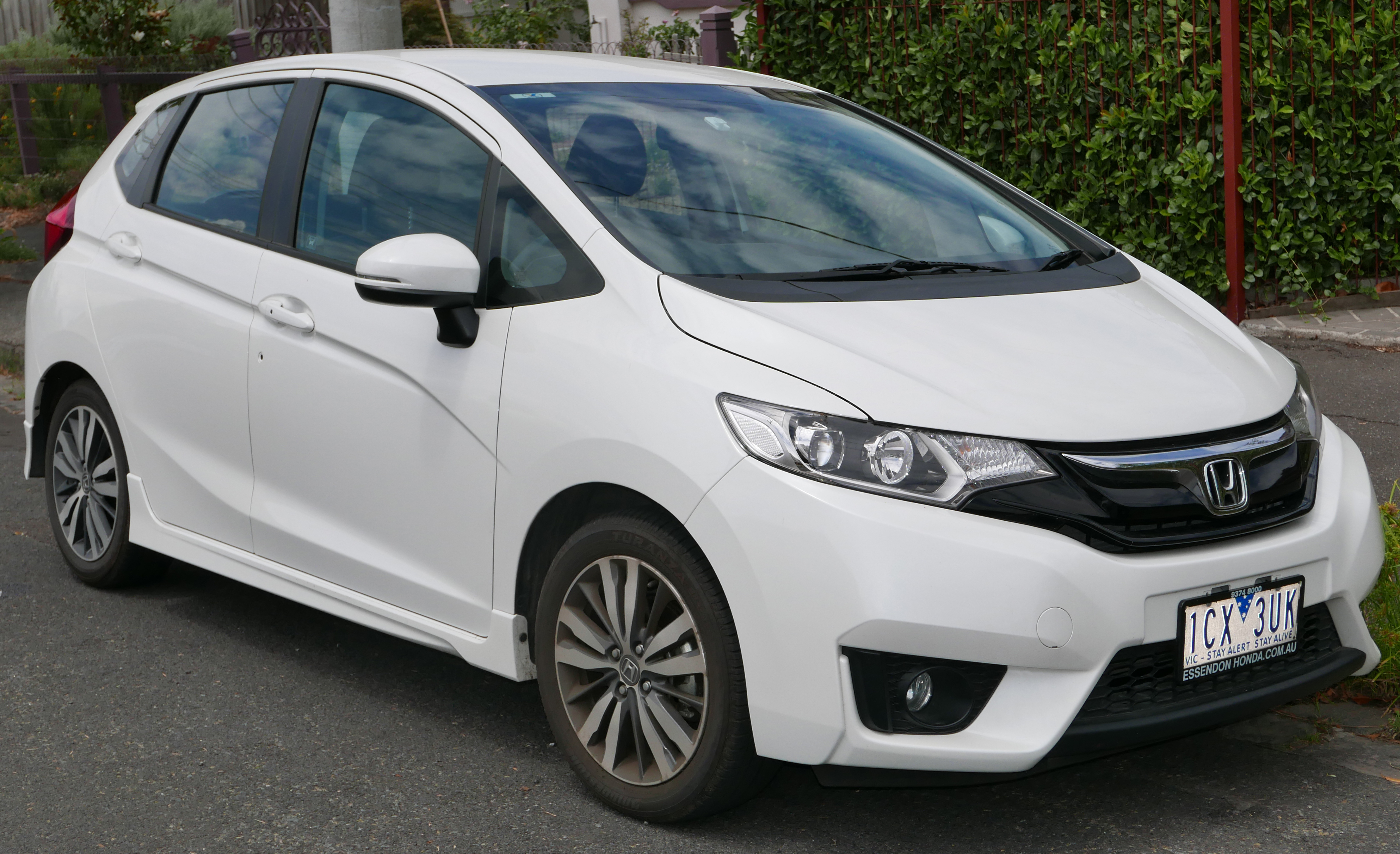 2014 Honda Jazz (GK5 MY15) VTi-L hatchback. Photographed in Brunswick West, Victoria, Australia. Vehicle registration enquiry resultsJurisdictionVictoriaRegistration1CX3UKChassis codeMRHGK5870FP020932Engine codeL15Z21105128Compliance date2014-10Year of manufacture2014